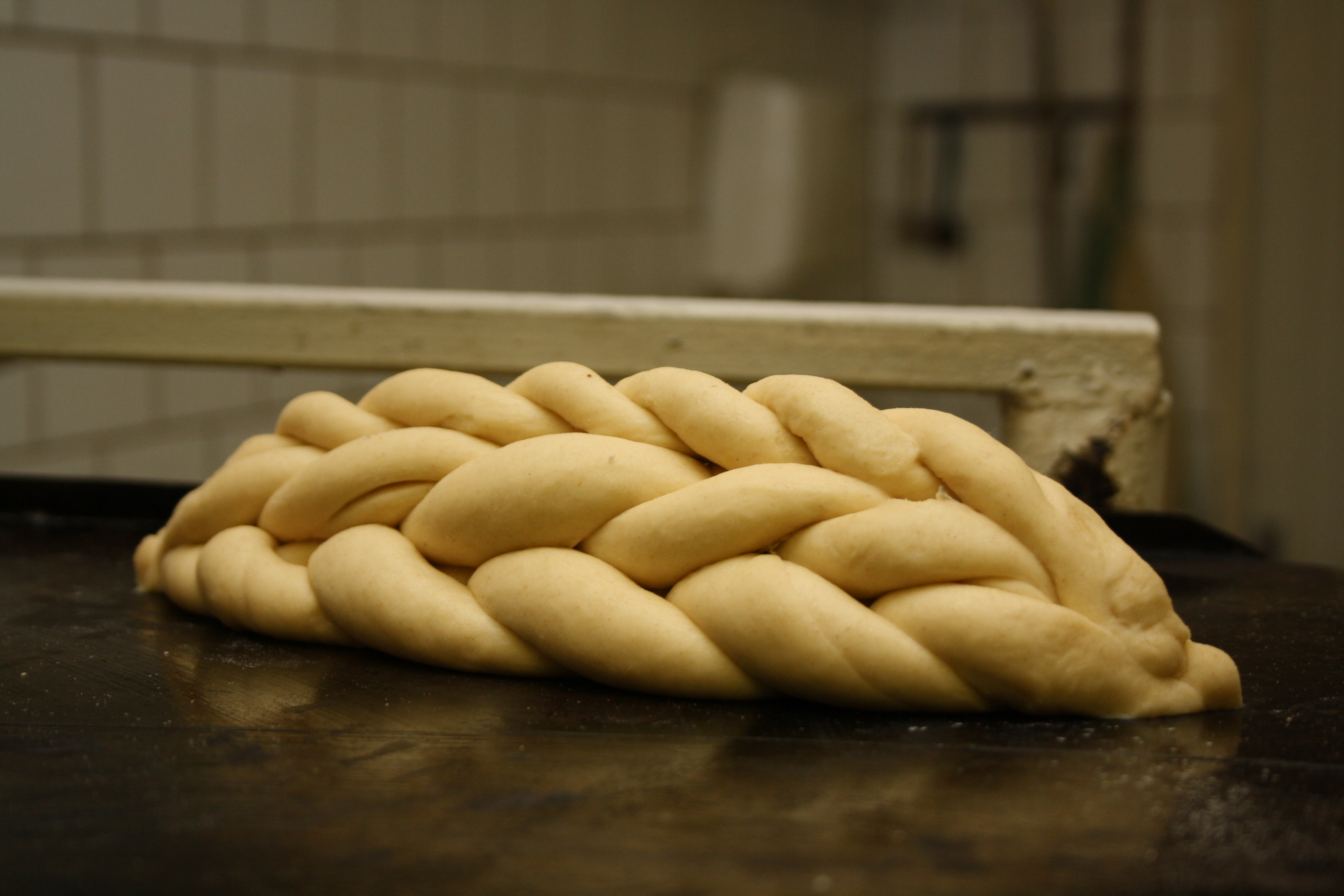 Production process of sweet bread called vánočka, Czech Republic This photograph was taken with a DSLR from WMCZ's Camera grant. This picture was taken and/or got within the scope of the 'Acquiring scientific and specialized pictures' grant.